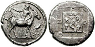 Mende, 460-423 BC. Silver tetradrachm (17.01 gm). Inebriated Silenus or Dionysos reclining on back of an ass, holding kantharos; crow standing on branches to right / MENΔAIΩN, vine of four grape clusters within shallow linear incuse square.